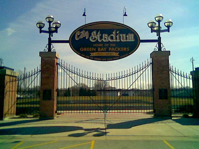 Modern-day City Stadium